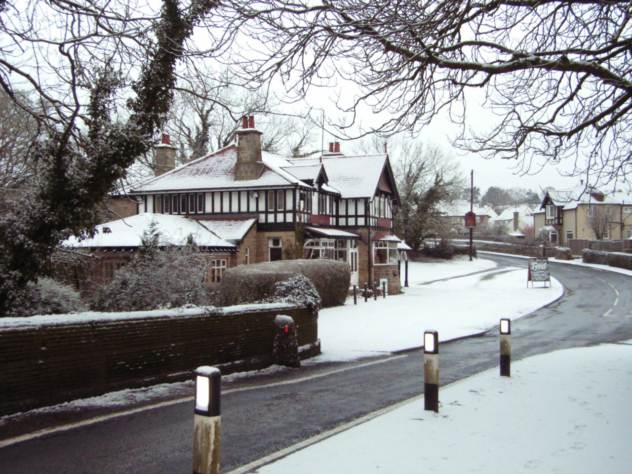 The Black Swan pub in Burnbridge Road, Burn Bridge, Harrogate, North Yorkshire, England, UK. 3 March 2009.